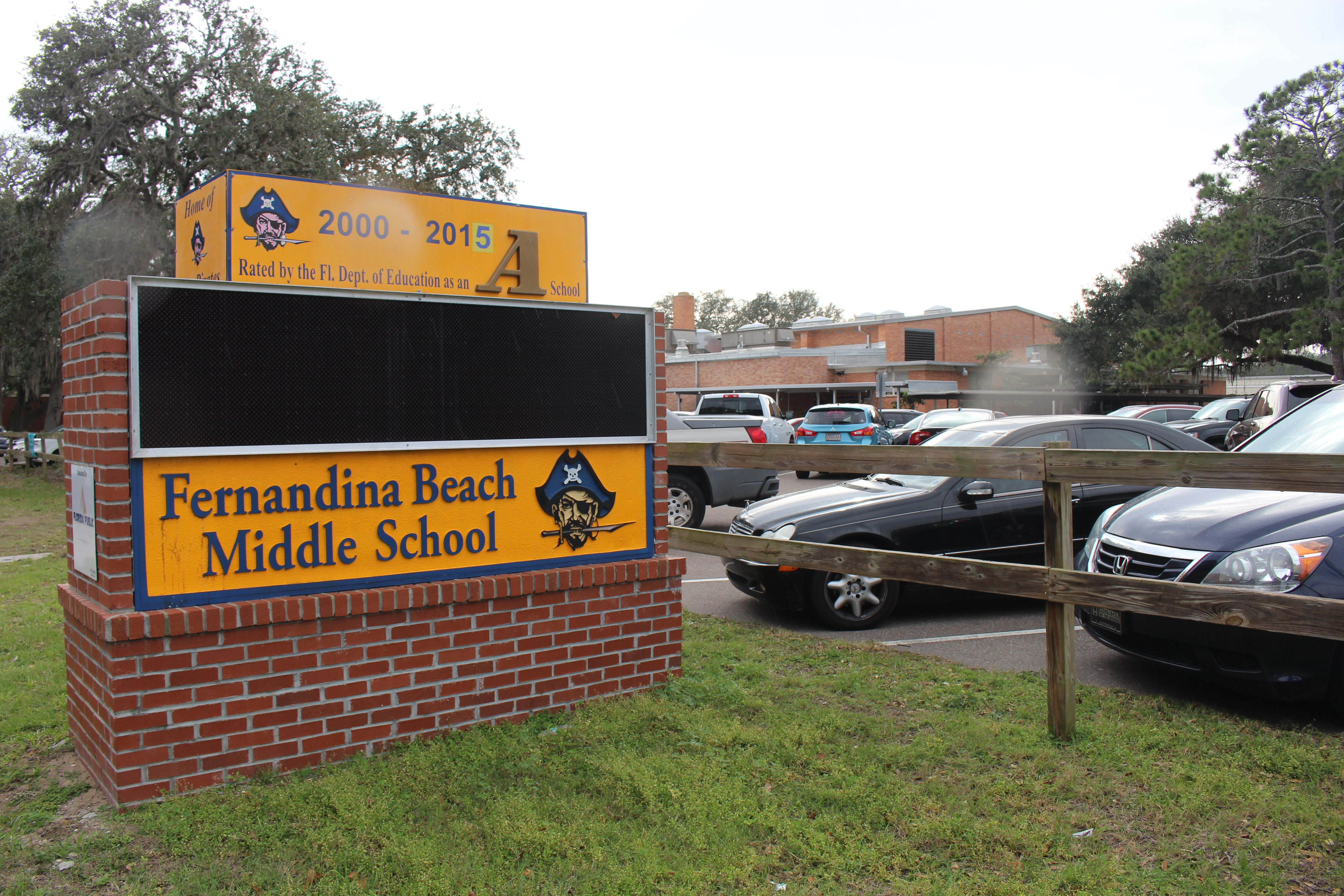 Fernandina Beach Middle School, 315 Citrona Drive, Fernandina Beach, Nassau County, Florida